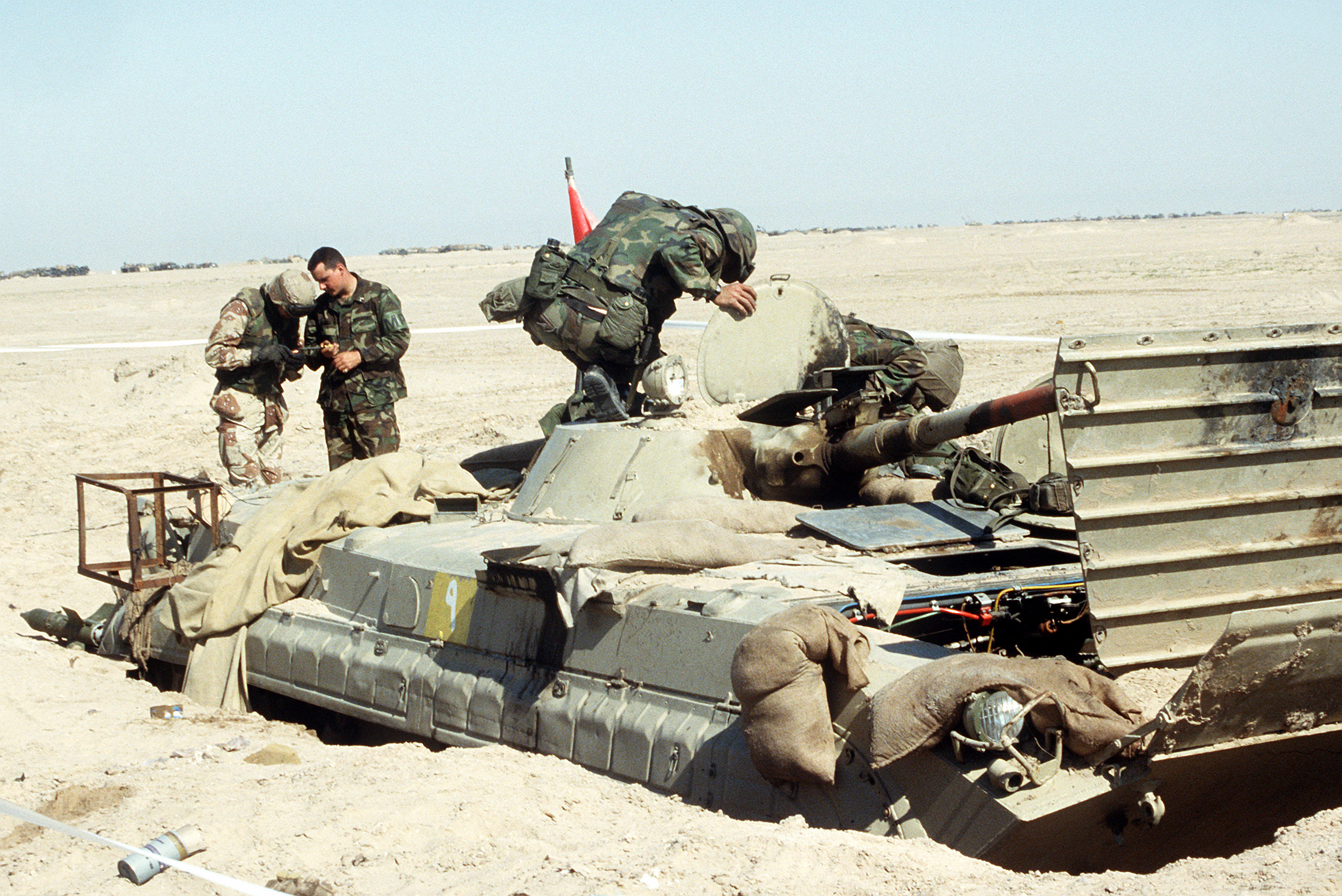 Military police of the 3rd Brigade, 1st Armored Division, 7th Corps inspect a BMP-1 IFV of the Iraqi Republican Guard damaged during Operation Desert Storm.